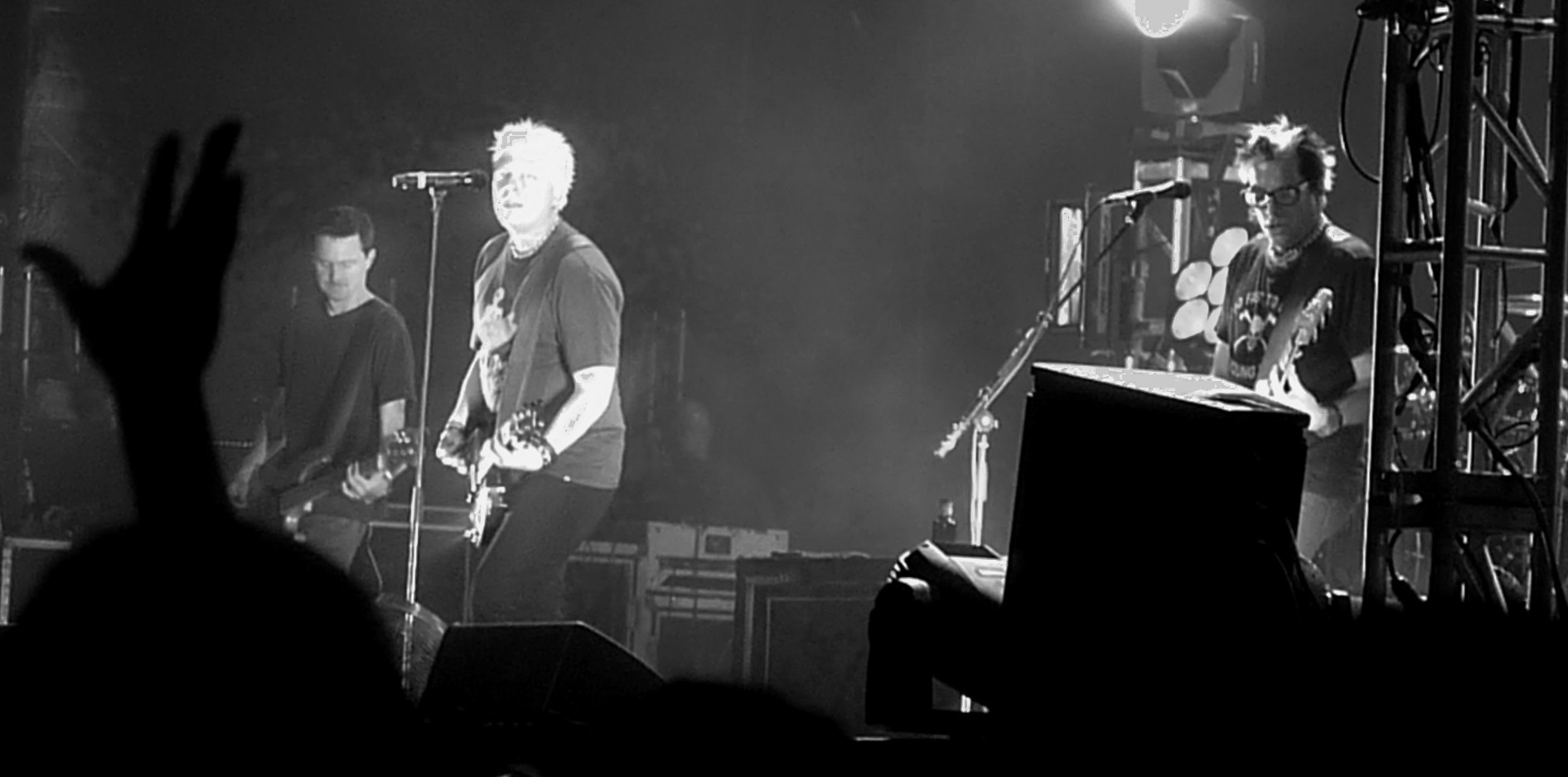 The Offspring performing at Sonisphere in Getafe, Spain.